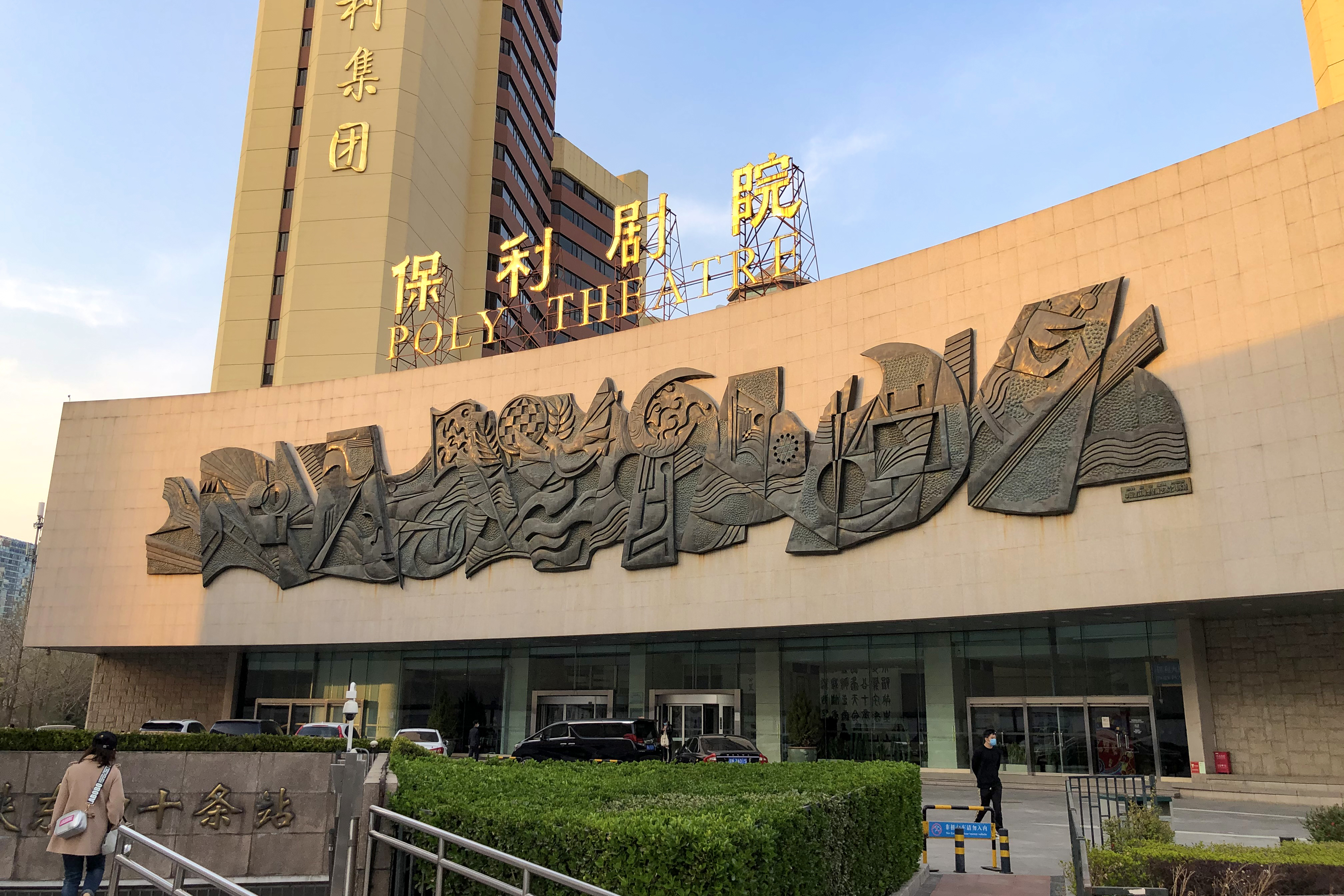 Under the old Poly building.